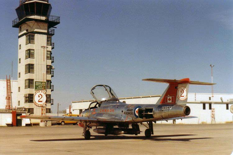 I took this photo of a CT-114 Tutor and the old CFB Moose Jaw control tower in the spring of 1982